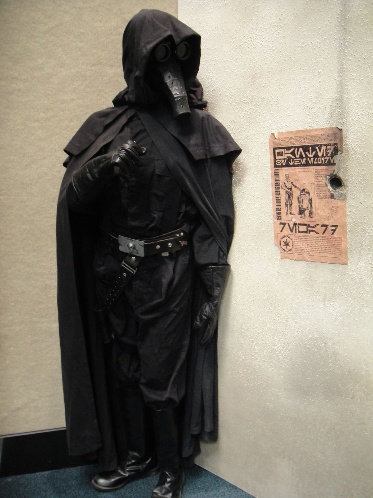 Garindan costume on display in the 501st room at Star Wars Celebration V.